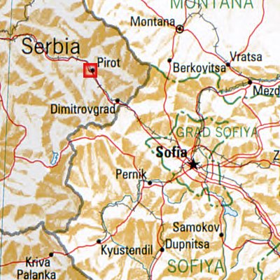 Bulgaria 1994 CIA map, city: part of the map Bulgaria_1994_CIA_map.jpg This image is in the public domain because it contains materials that originally came from the United States Central Intelligence Agency's World Factbook.